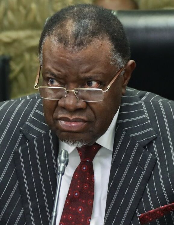 Hage Gottfried Geingob (born 3 August 1941) is the third and current president of Namibia